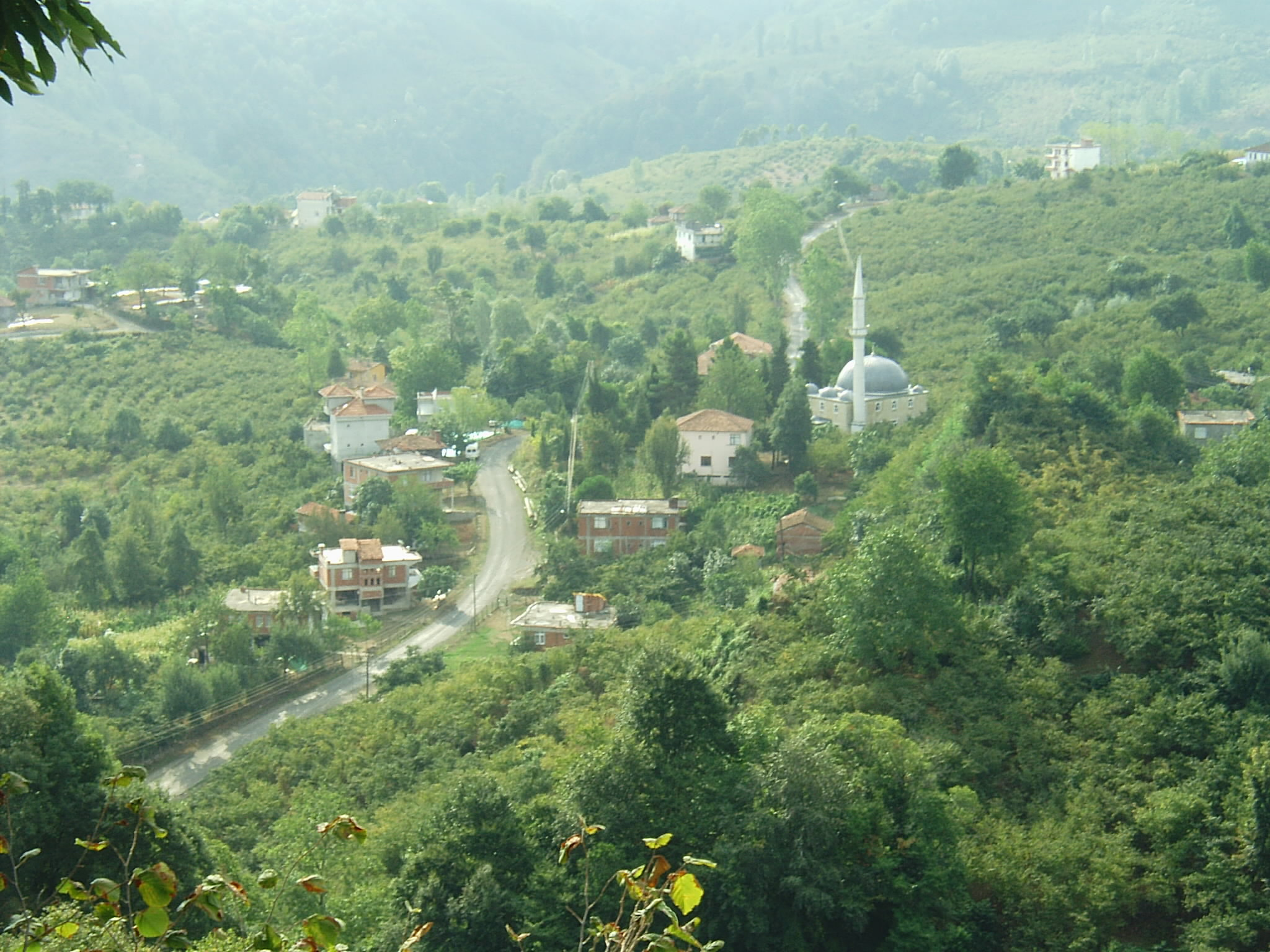 General view of Kuşça, Terme.